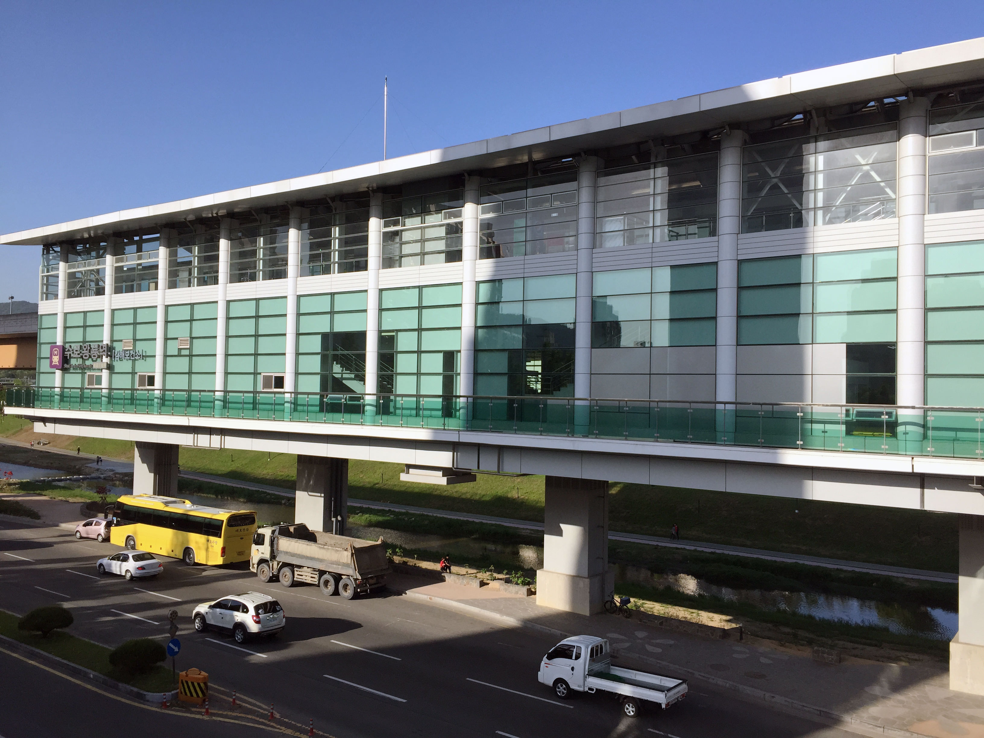 Royal Tomb of King Suro (Gimhae Health Center) Station